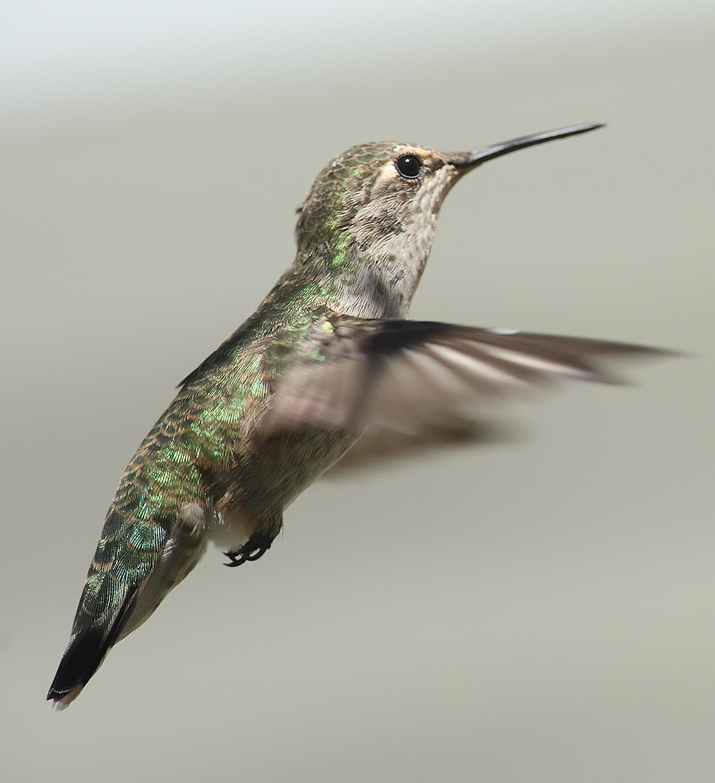 A female Anna's Hummingbird - Calypte anna - hovering